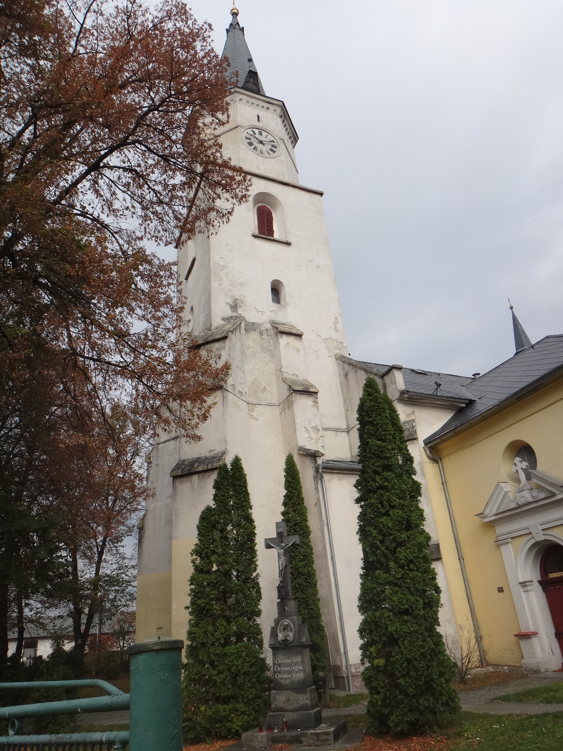 Starý Bohumín church Virgin Mary